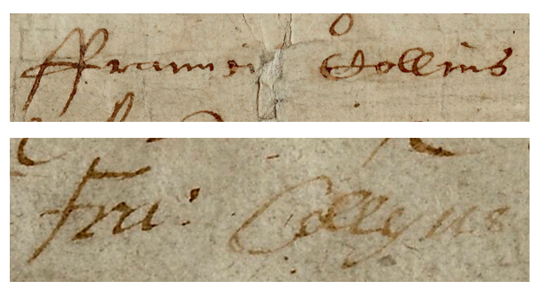 Two instances of the name of Shakespeare's lawyer, "Francis Colllyns" taken from Shakespeare's will